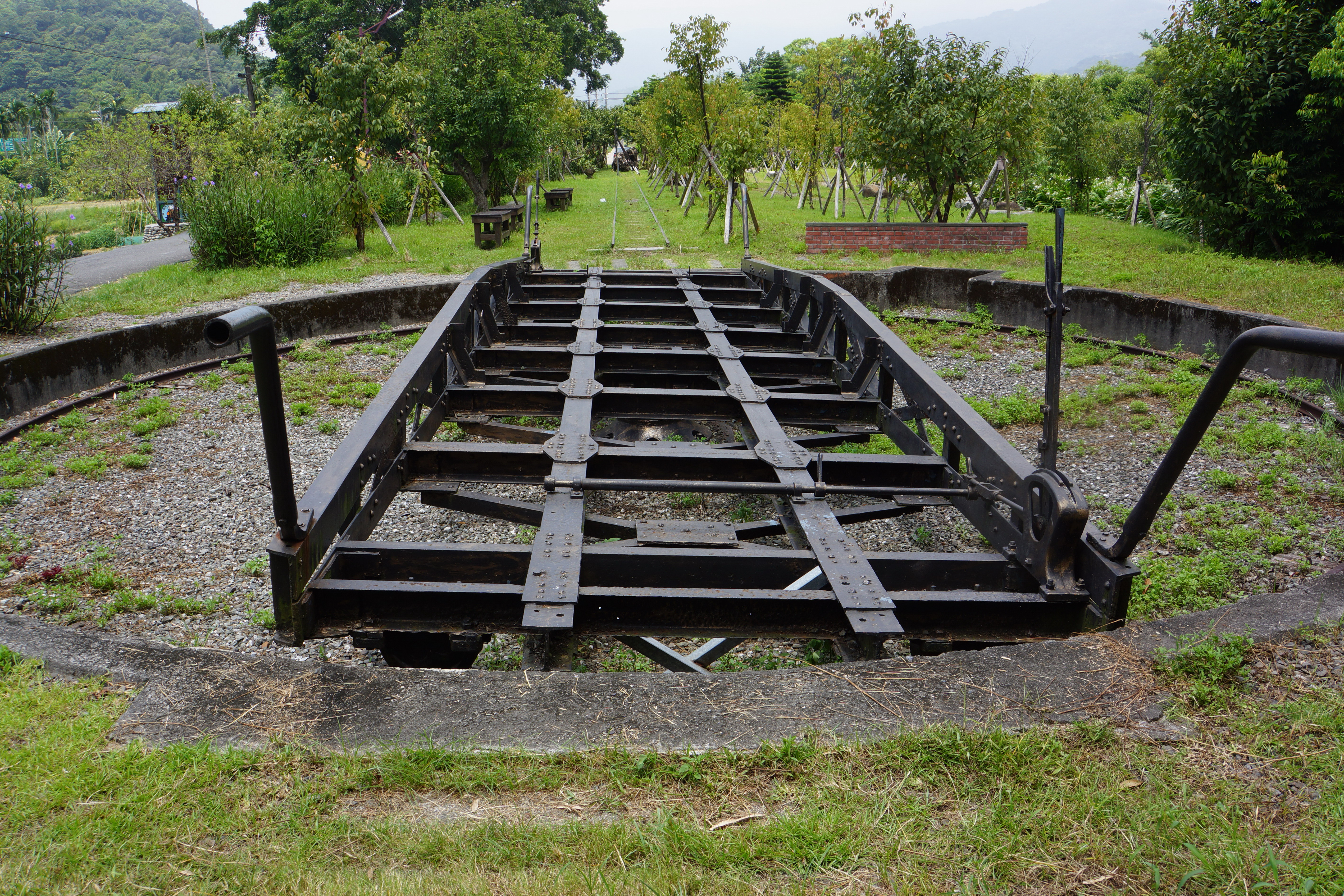 Railway Turntable at Tiansongpi Station 天送埤車站迴轉盤